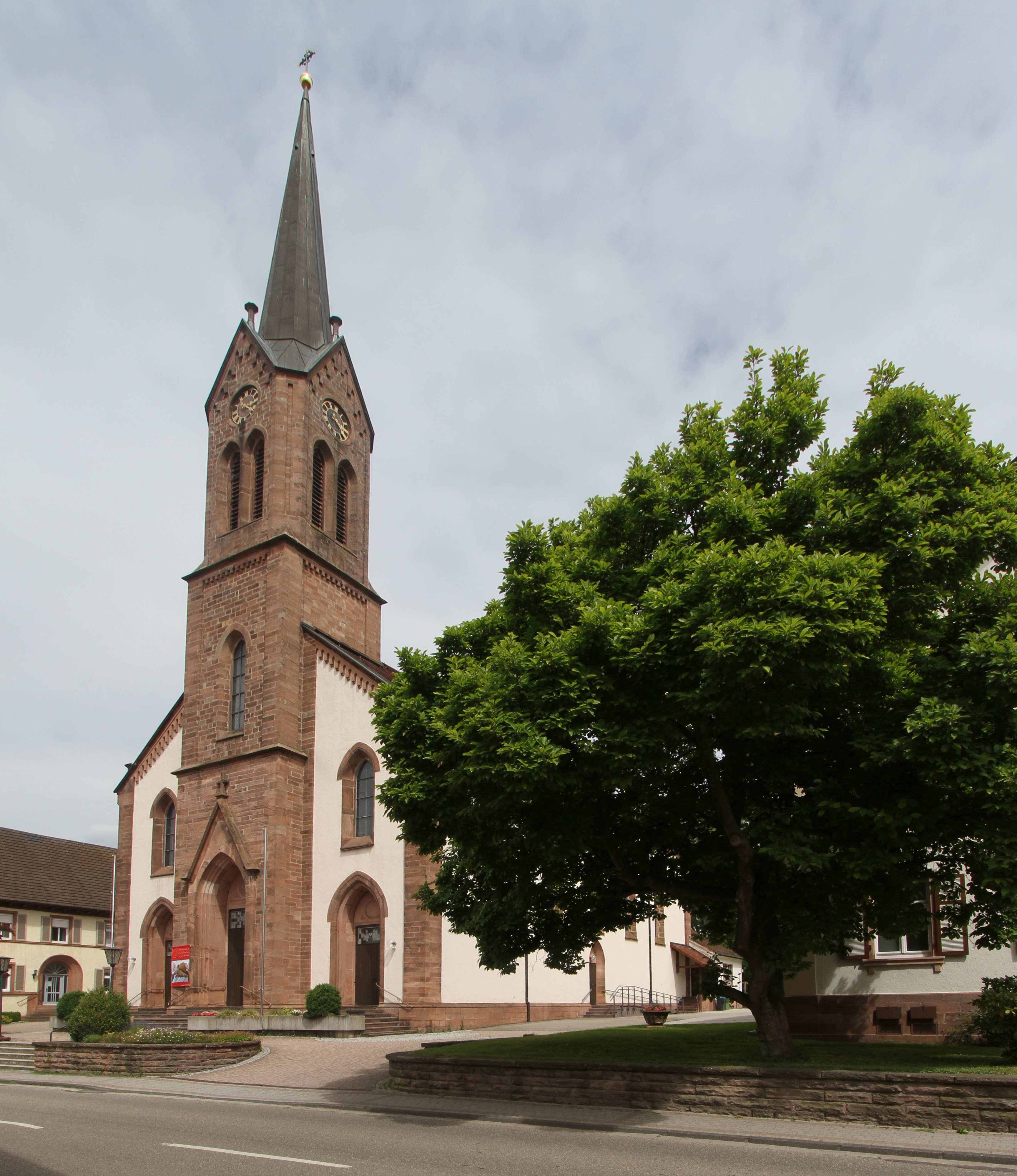 Church of St. Roman in Achern-Mösbach.